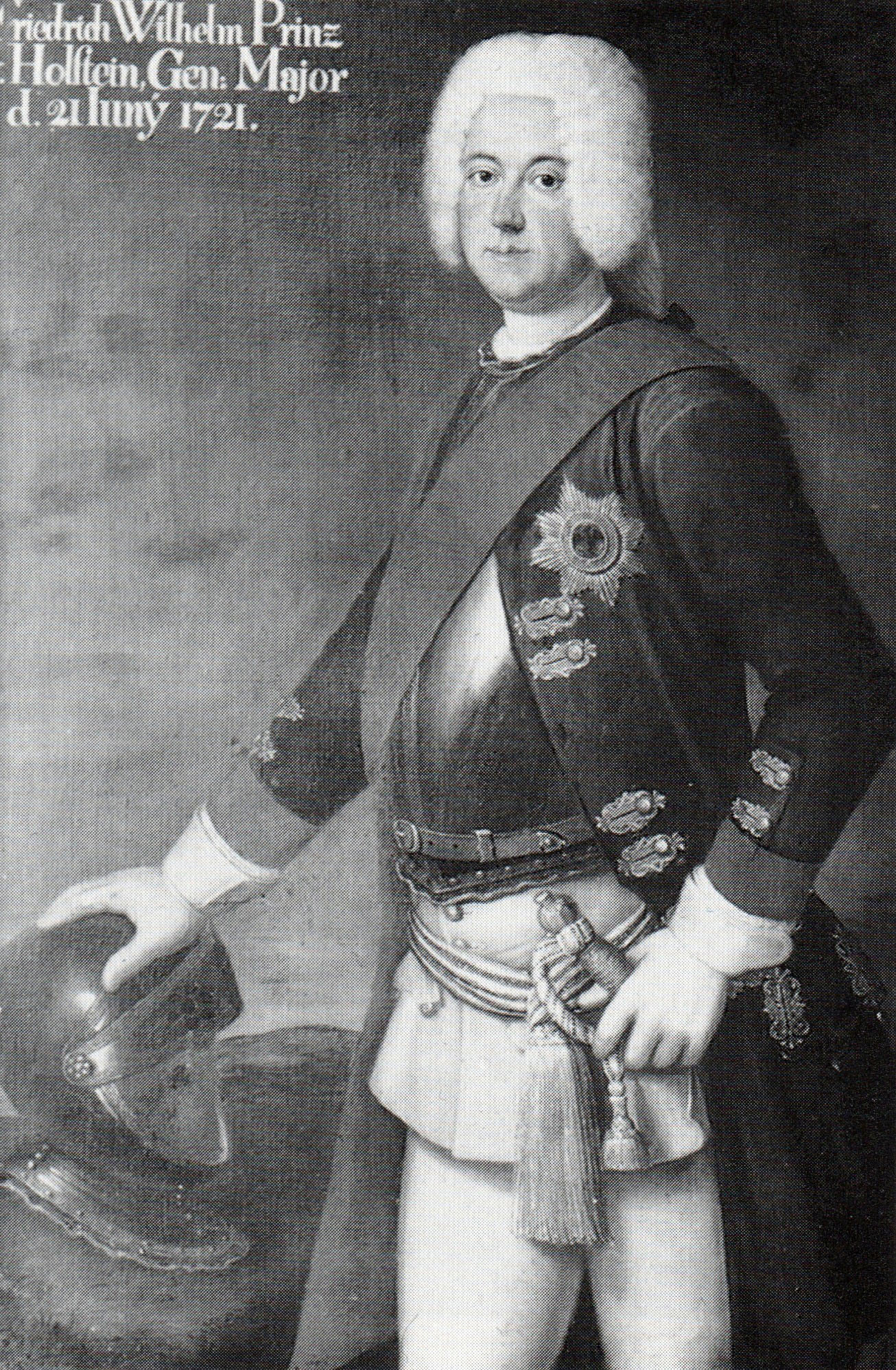 Portrait of Frederick William II, Duke of Schleswig-Holstein-Sonderburg-Beck (1687-1749)